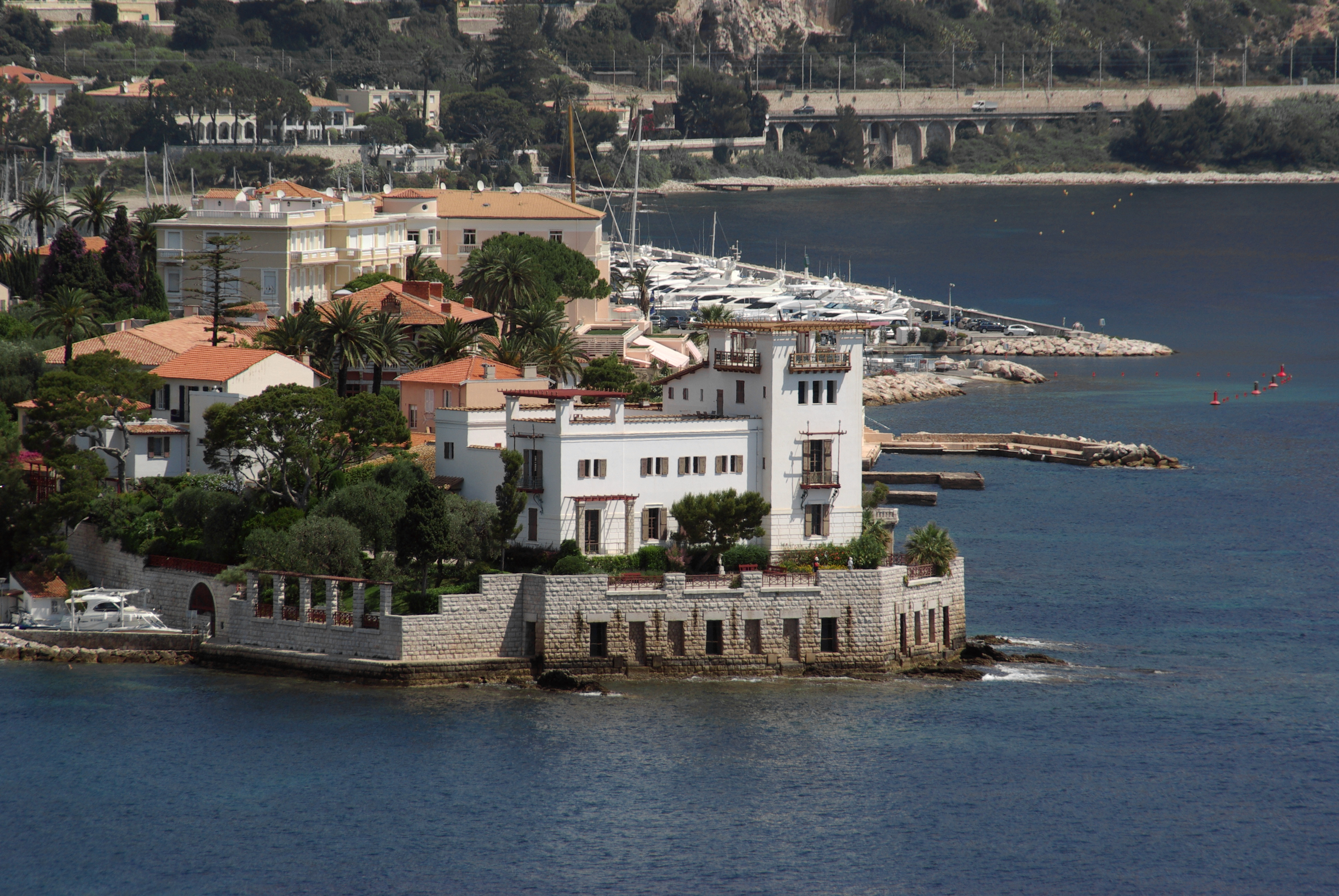 Beaulieu-sur-Mer, Villa Kerylos seen from Cap Ferrat